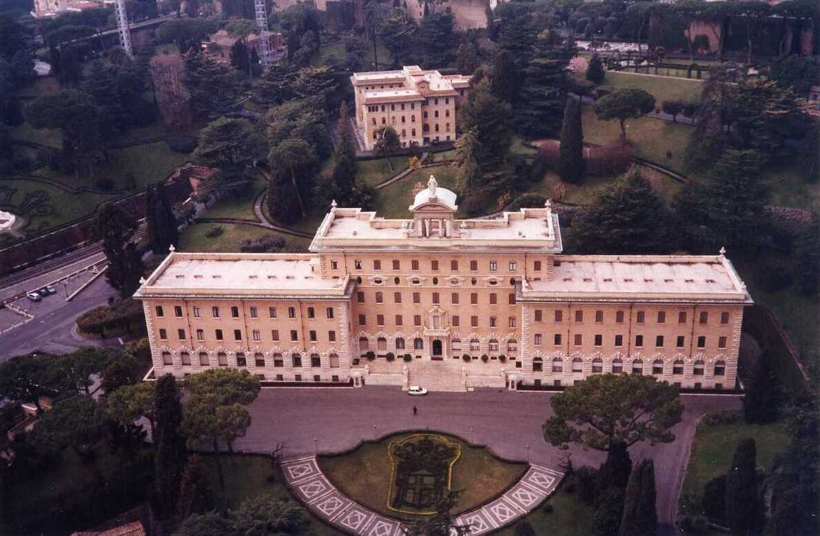 View of a vatican palace took from the Saint Peter's dome.